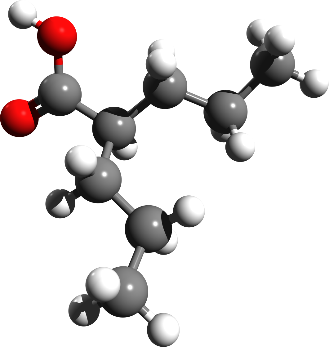 Valproic acid structure